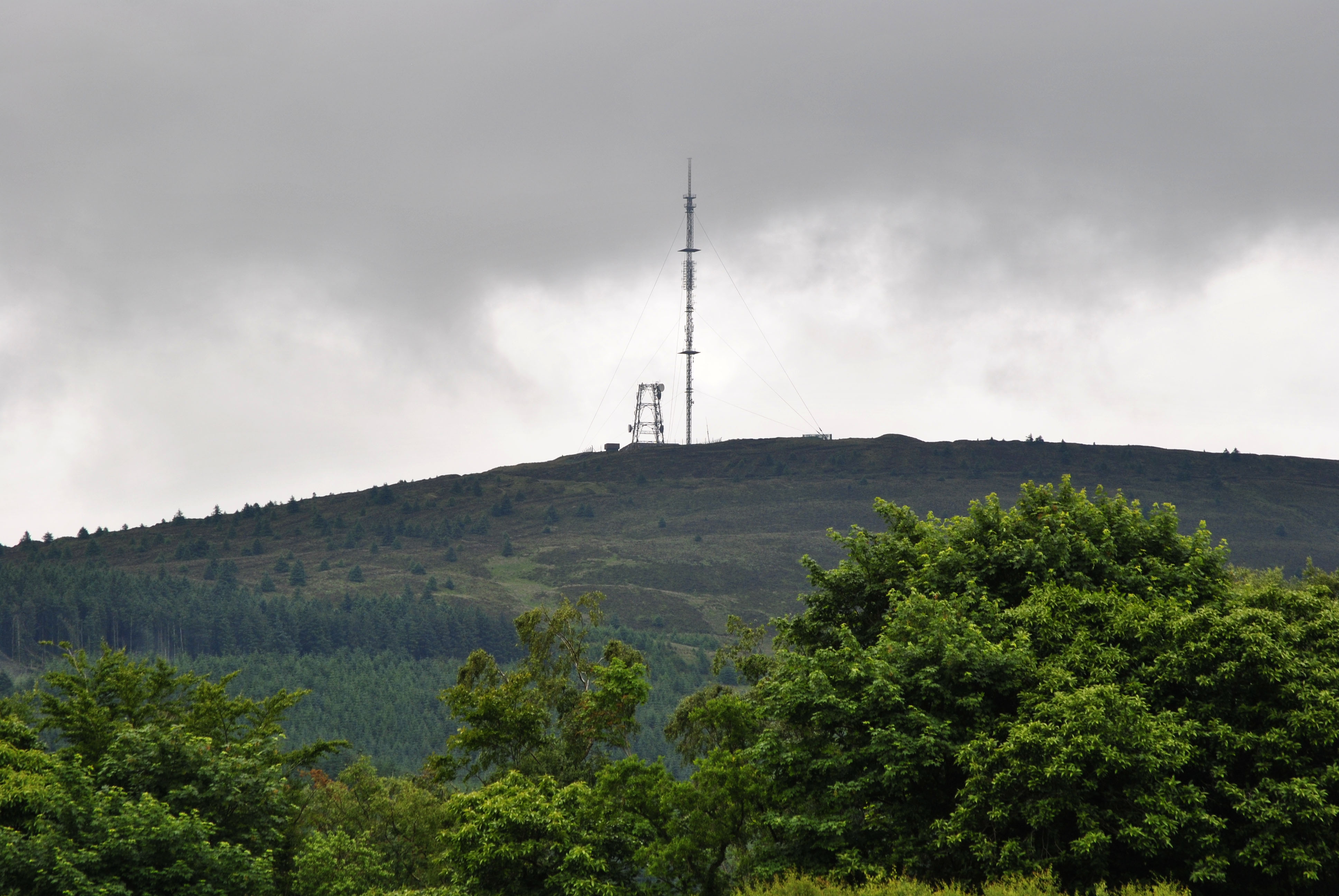 Clermont Carn 2RN transmitter County Louth, seen from Church Hill Road Jonesborough County Armagh